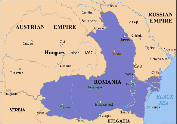 Romania, map showing the period 1878-1913